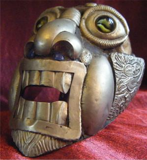 This is a Kapala used by Mantrik